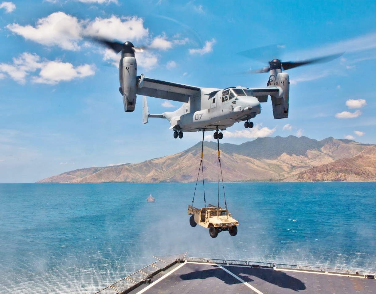 An MV-22B Osprey lifts a high mobility multipurpose wheeled vehicle from the USNS Sacagawea April 11 at Subic Bay, Republic of the Philippines, during exercise Freedom Banner 2013